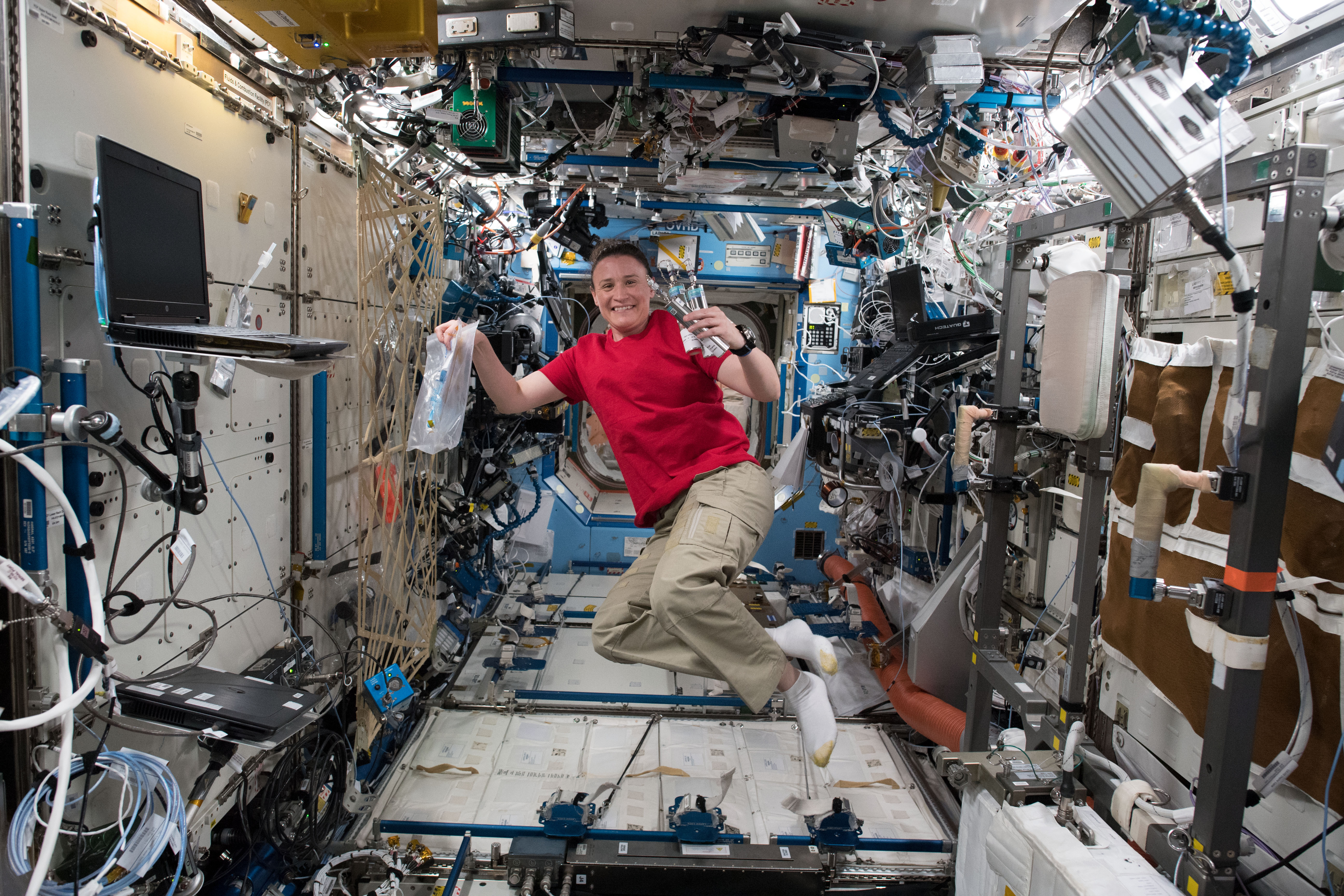 Expedition 56 Flight Engineer Serena Auñón-Chancellor of NASA is pictured in the Destiny laboratory module with gear from the Marrow investigation. She was collecting breath samples to analyze and measure red blood cell function to help doctors understand how blood cell production is altered in microgravity. Results may improve the health of astronauts on long-term missions and help patients on Earth with mobility and aging issues.